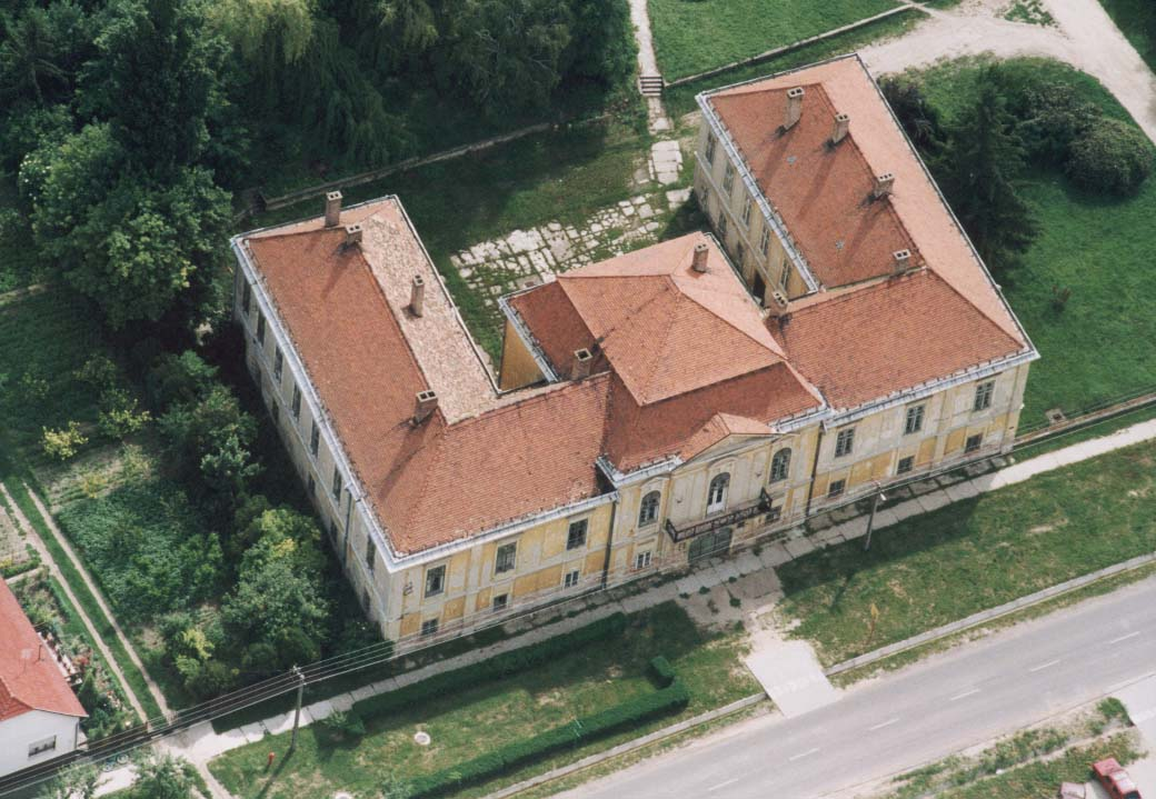 Palace - Vál - Hungary - Europe (Ürményi Mansion)